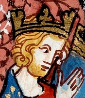 Henry I of France